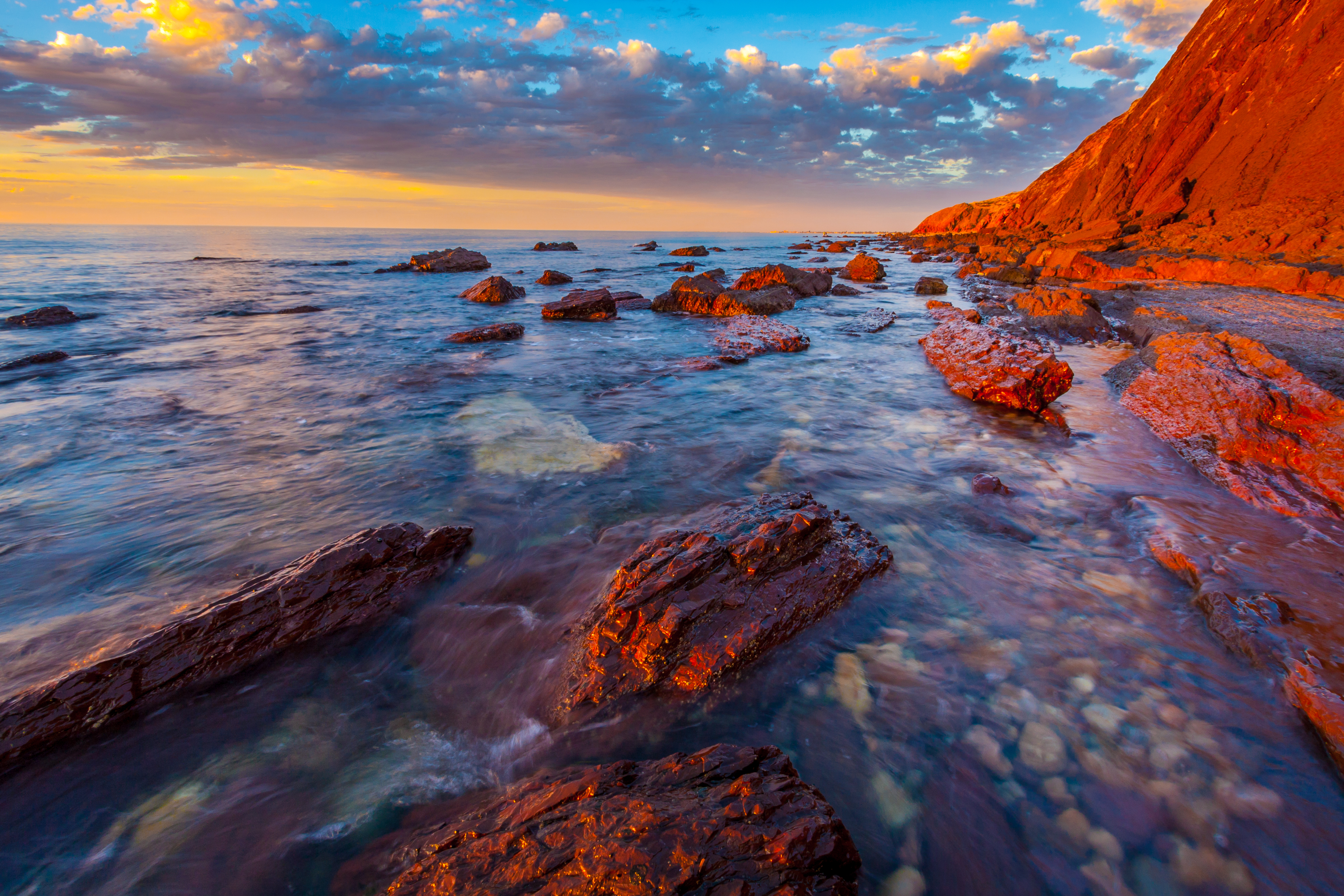 Sunset on the coast of South Australia